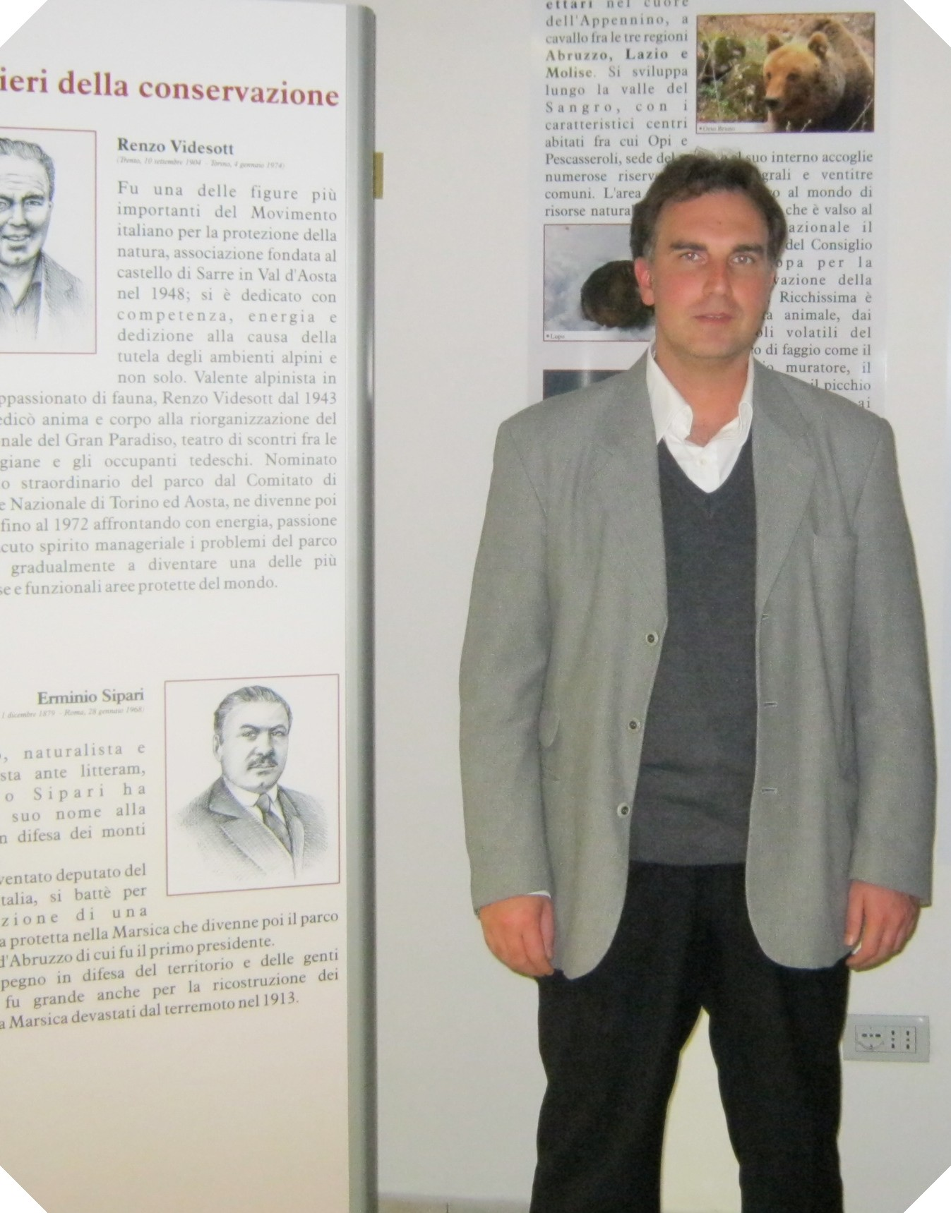 Lorenzo Arnone Sipari (born in 1973), italian environmental historian.